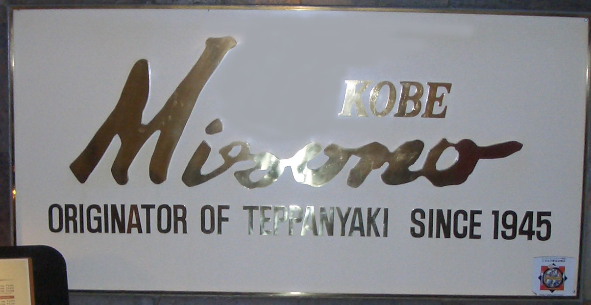 The sign of the Misono restaurant in Tokyo, Japan.